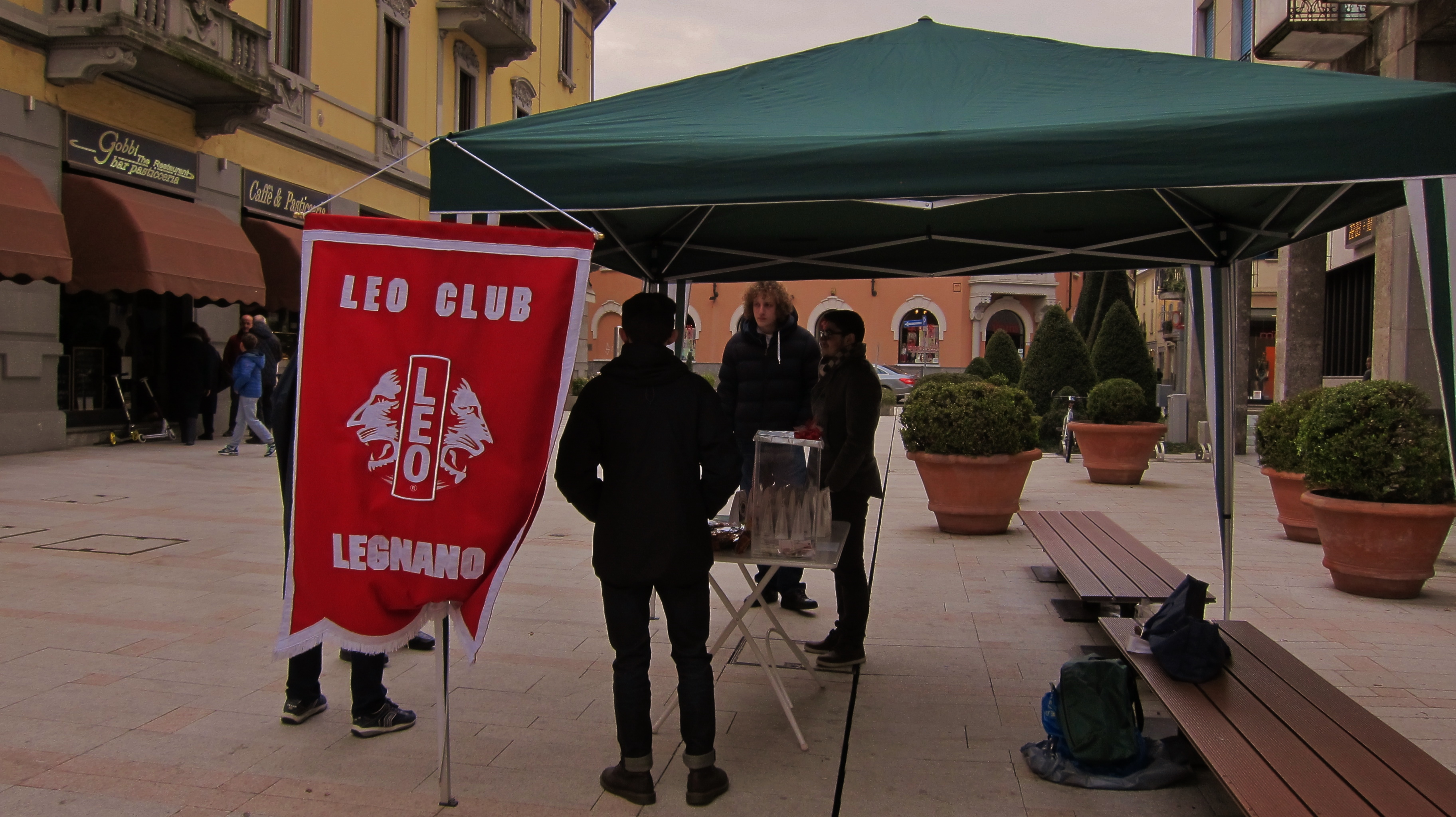 Leo Club Legnano stand for charity fundraising sale in corso G. Garibaldi, Legnano